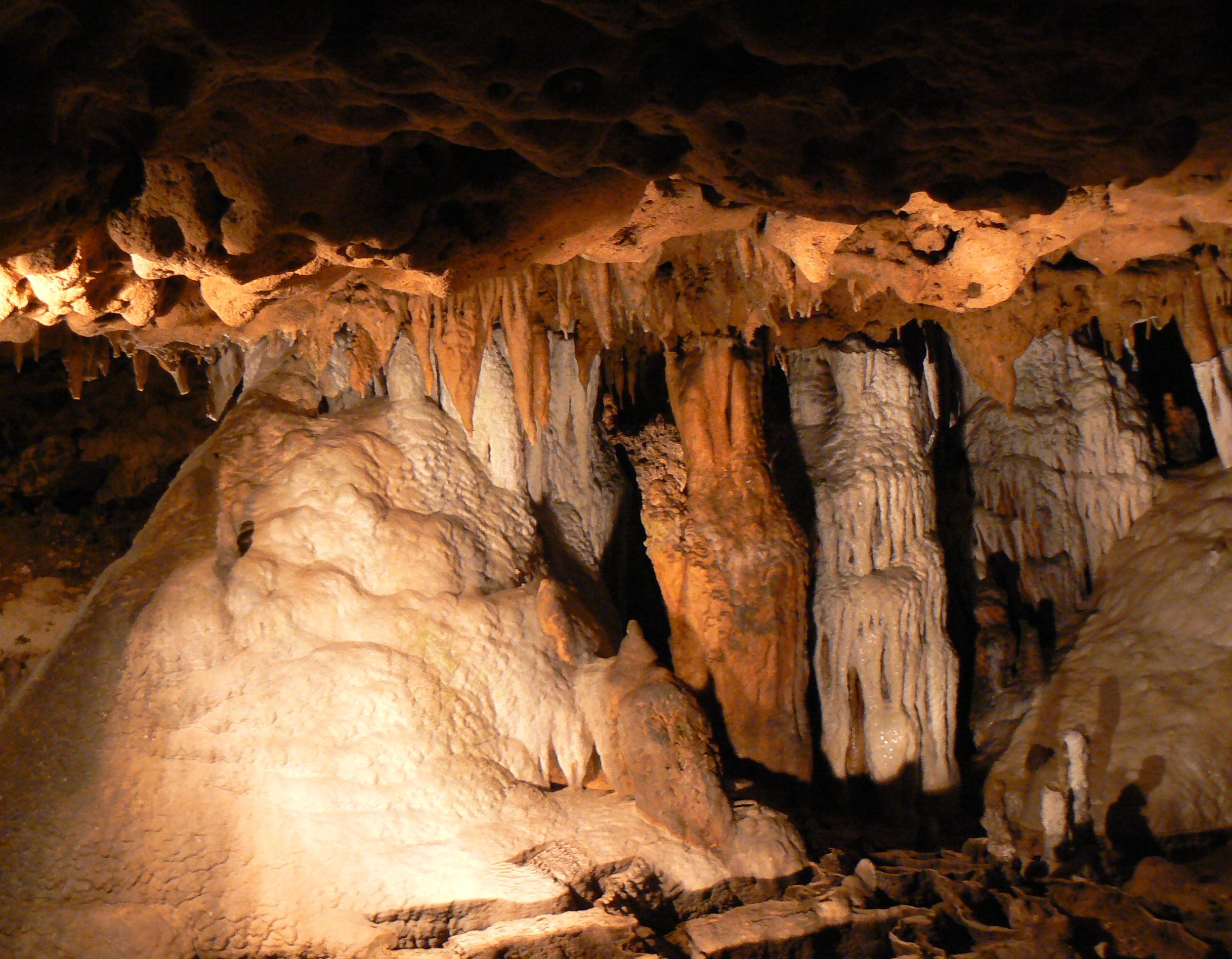 Formations at Florida Caverns State Park, Marianna FL